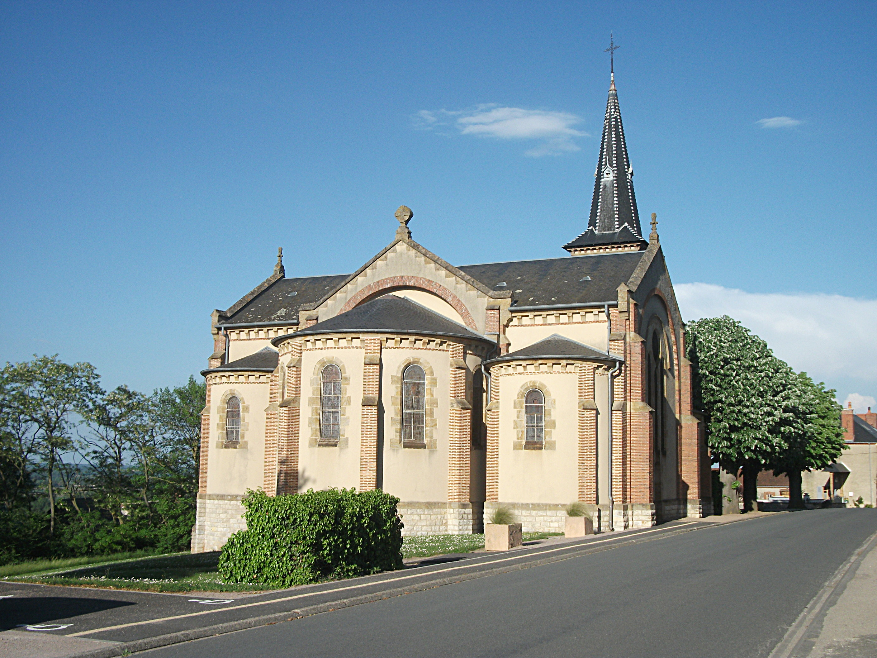 Church of Monétay-sur-Allier, Allier, Auvergne-Rhône-Alpes, France [16164]